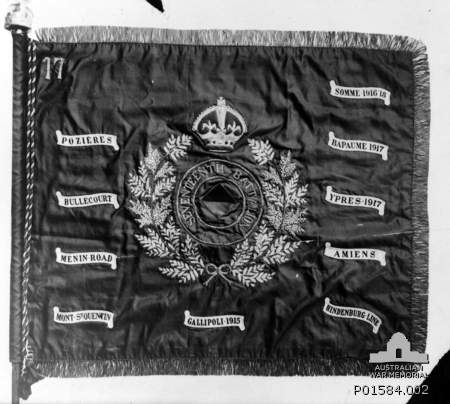 AWM Caption:1918? FLAG WITH THE COLOURS OF THE 17TH BATTALION LISTING THE BATTLES OF WORLD WAR 1 IN WHICH HONOURS WERE GAINED BY THE BATTALION.